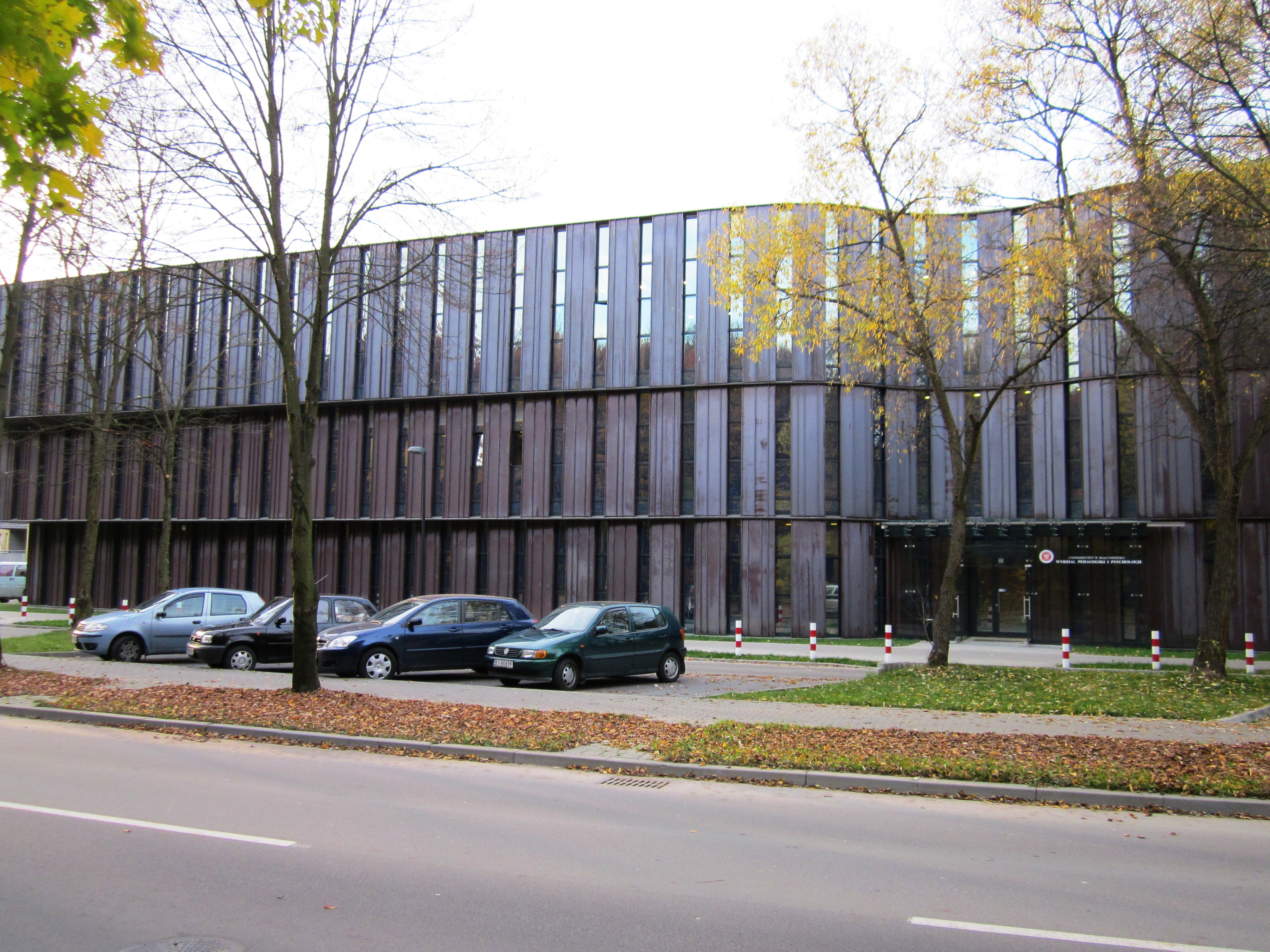 University of Białystok, 20 Świerkowa street. Faculty of Pedagogy and Psychology